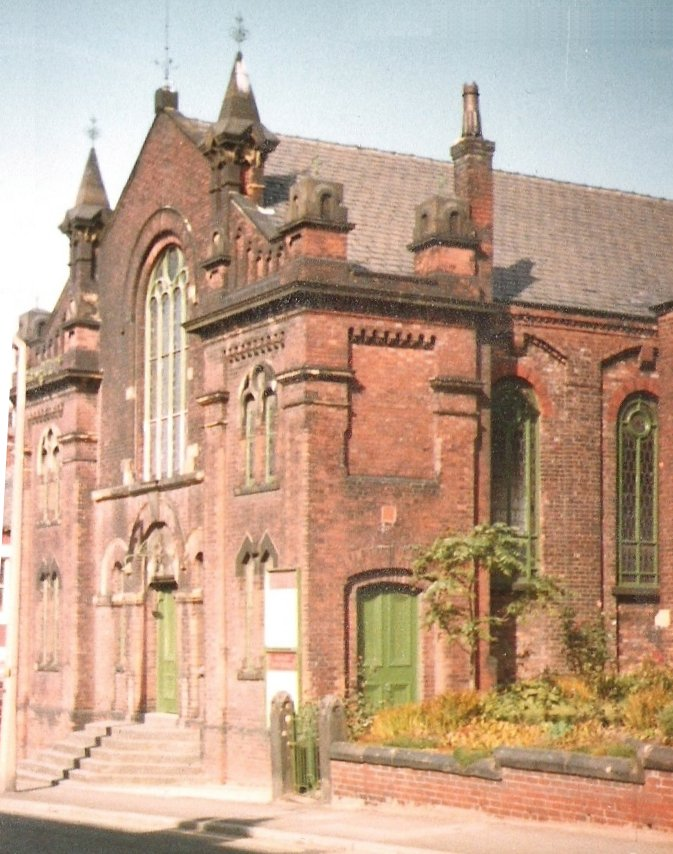 View of Westwood Moravian Church, in Oldham, Greater Manchester, England. This photograph was taken circa 1975, from Middleton Road following construction of new front entrance steps.